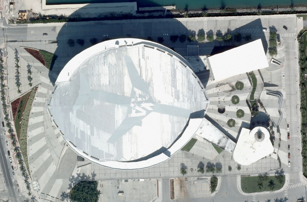 American Airlines Arena satellite view, nasa world wind 1.3.5